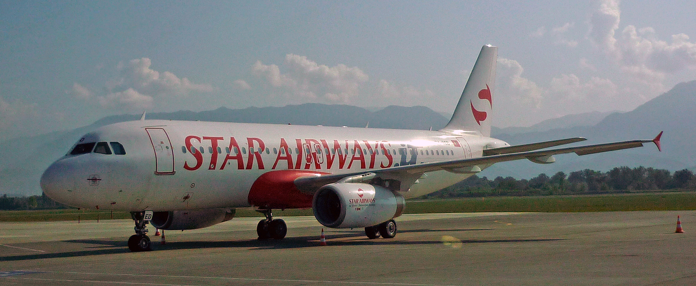 Star Aiways Airbus A320-200 ZA-RED at Tirana Airport .